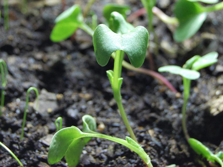 Common radish germinating in an indoor garden. 10 days after planting.